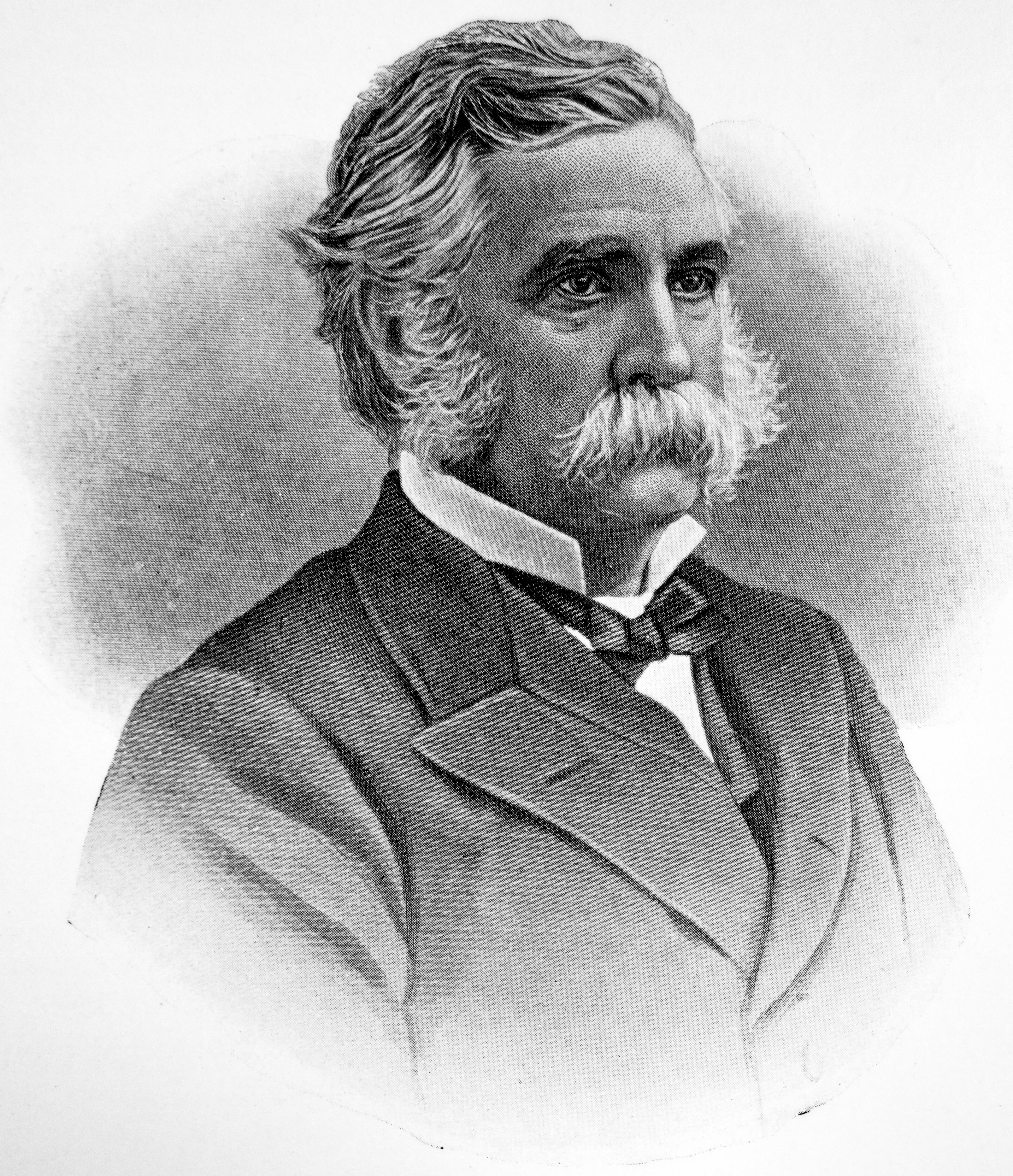 RI Governor John W Davis. Source: An Illustrated History of Pawtucket, Central Falls, and Vicinity by Robert Grieve (1897).